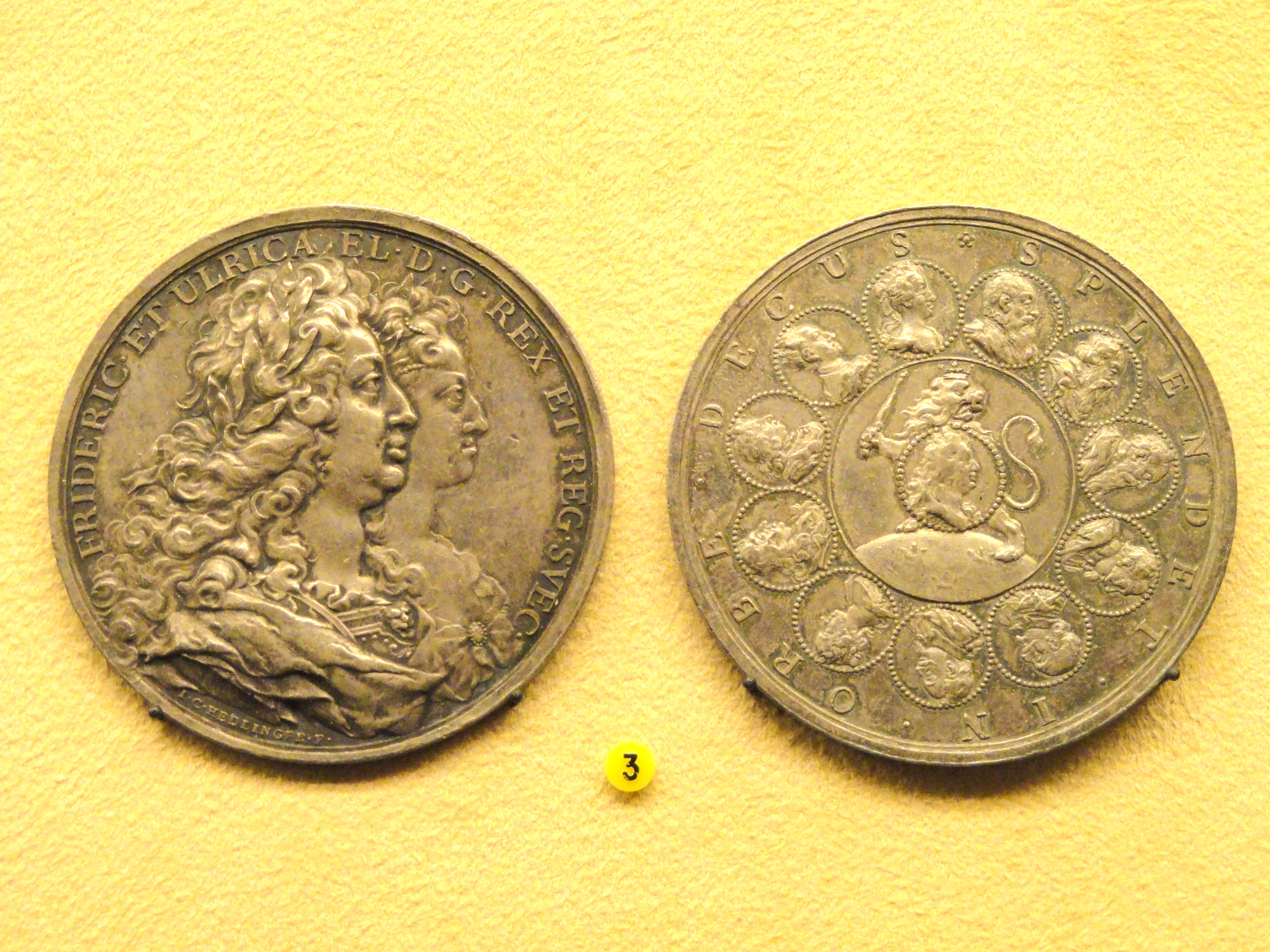 Coin / medal in the National Museum of Finland, Helsinki, Finland. This artwork is in the public domain because the artist(s) died more than 70 years ago.